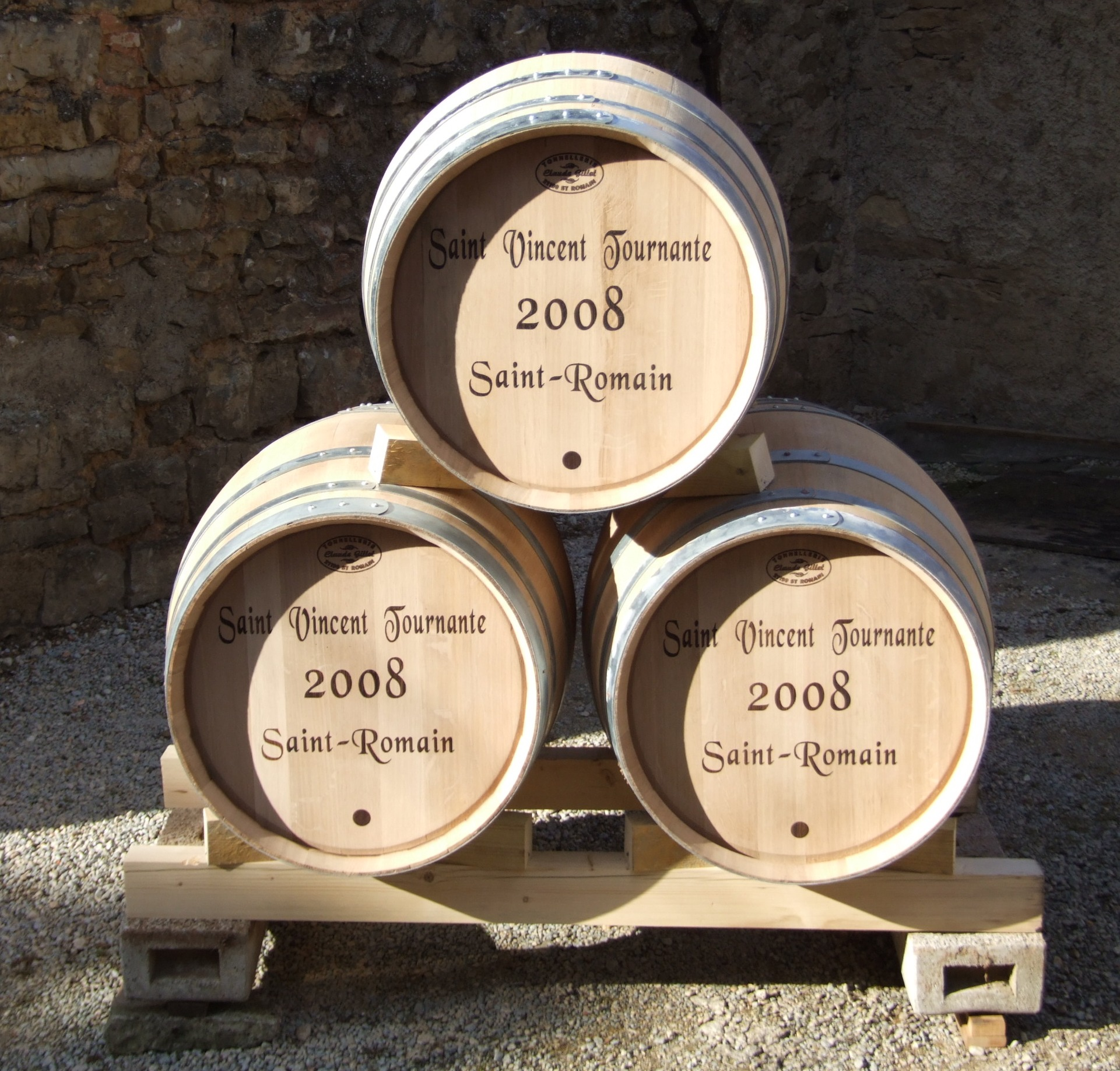 Saint-Romain, Côte-d'Or, Burgundy, FRANCE